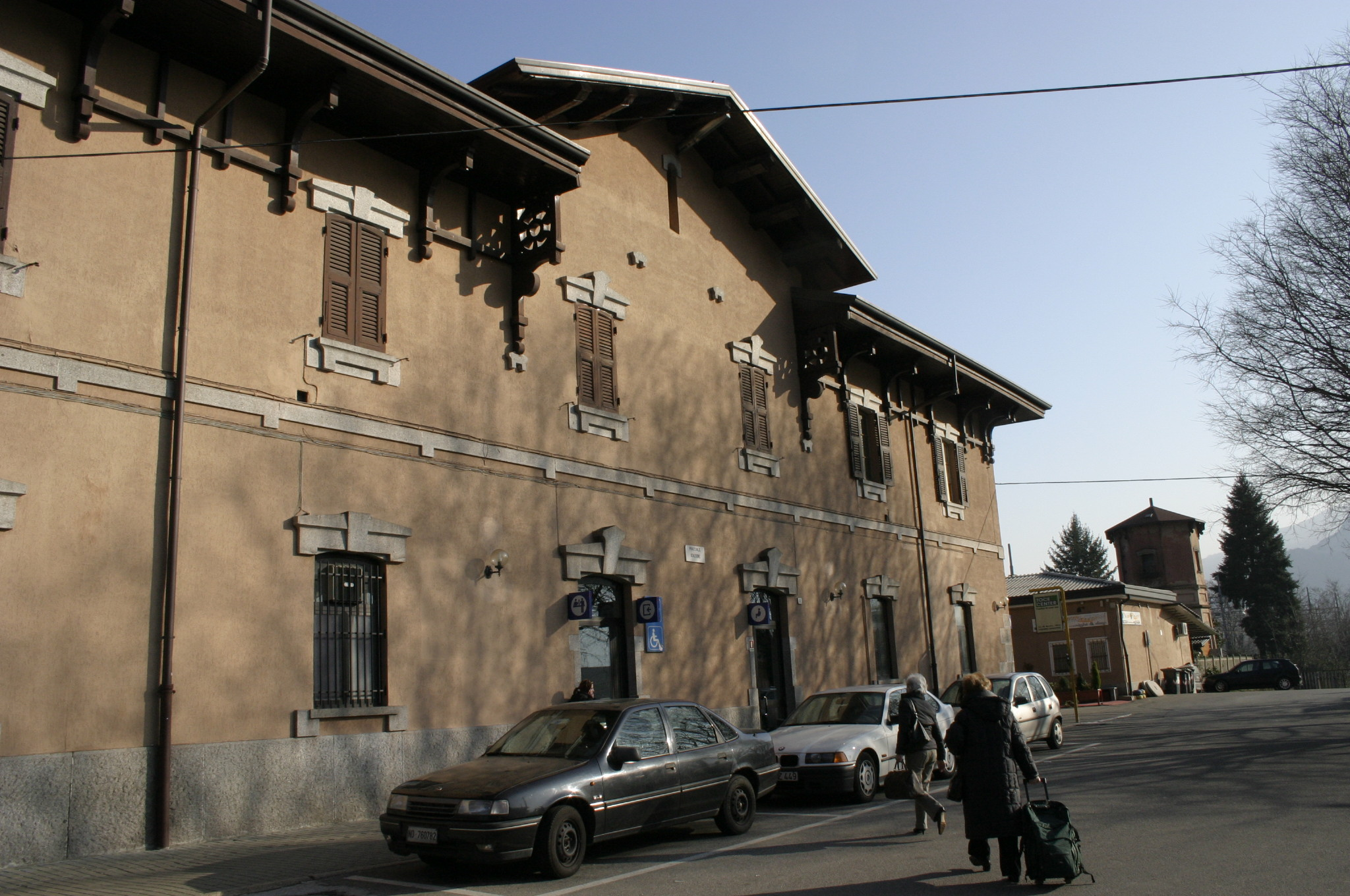 Train station in Verbania, at Verbania-Fondotoce. Picture by Giovanni Dall'Orto, February 3 2007.